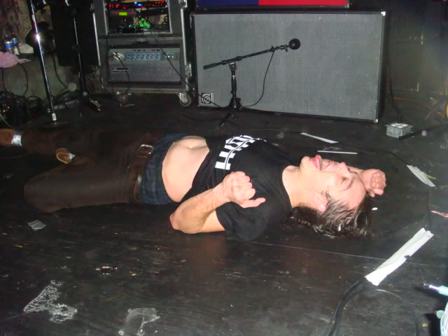 Darroh Sudderth performing with Fair to Midland in Houston, Texas, 19th April 2009.